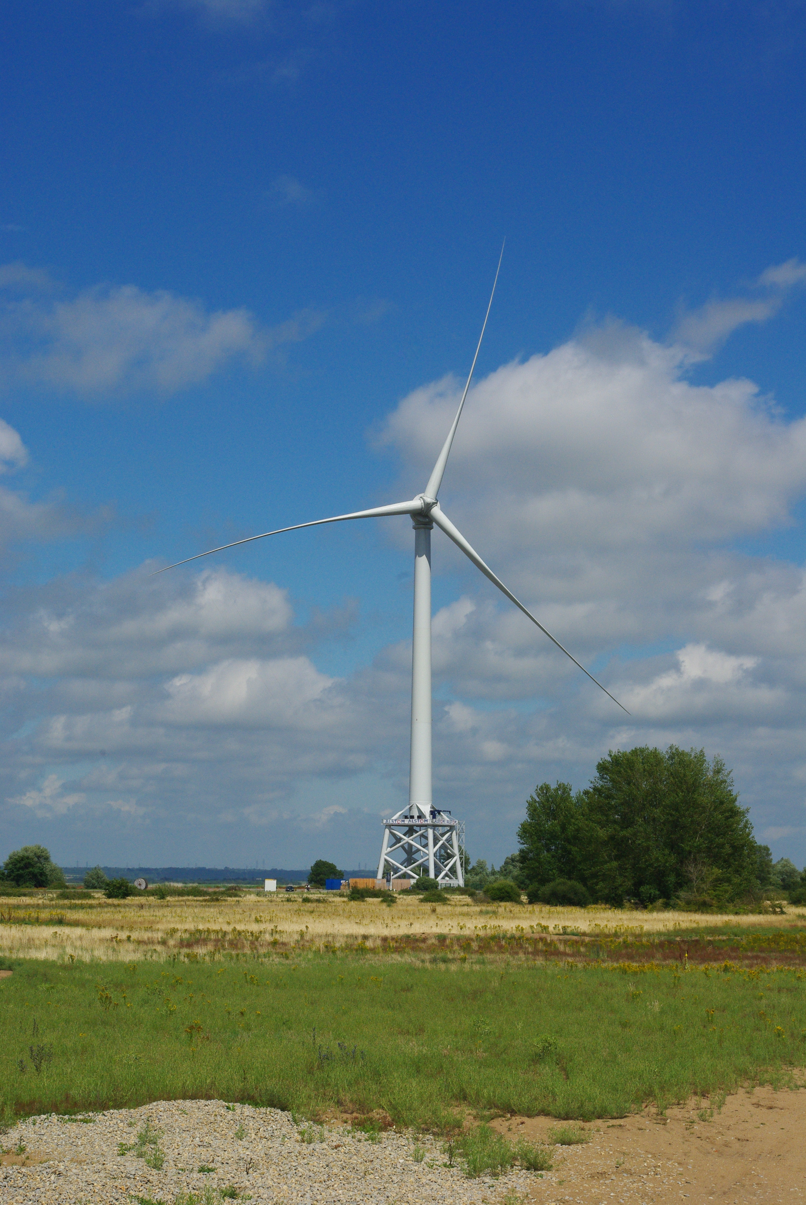 Haliade wind-turbine in Le Carnet, Loire-Atlantique